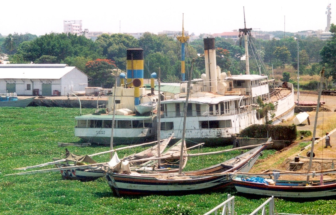 Kisumu Harbour with water hyacinths, Kenya